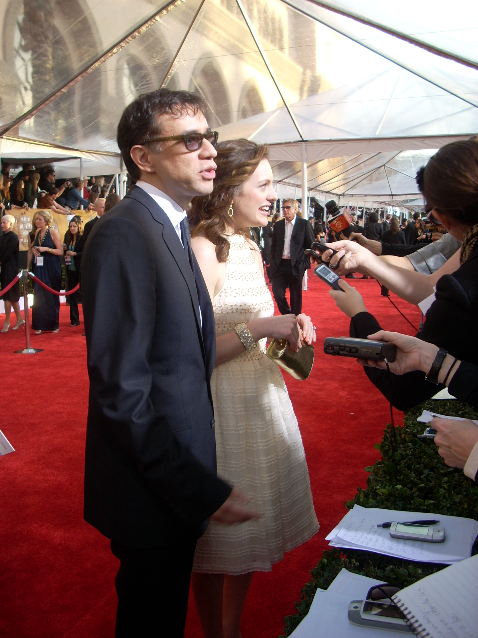 Comedian Fred Armisen and actress Elizabeth Moss, at the 15th Screen Actors Guild Awards